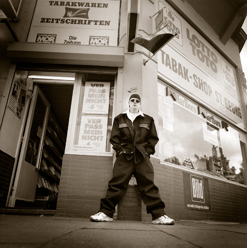 King of the corner, Hamburg 2001